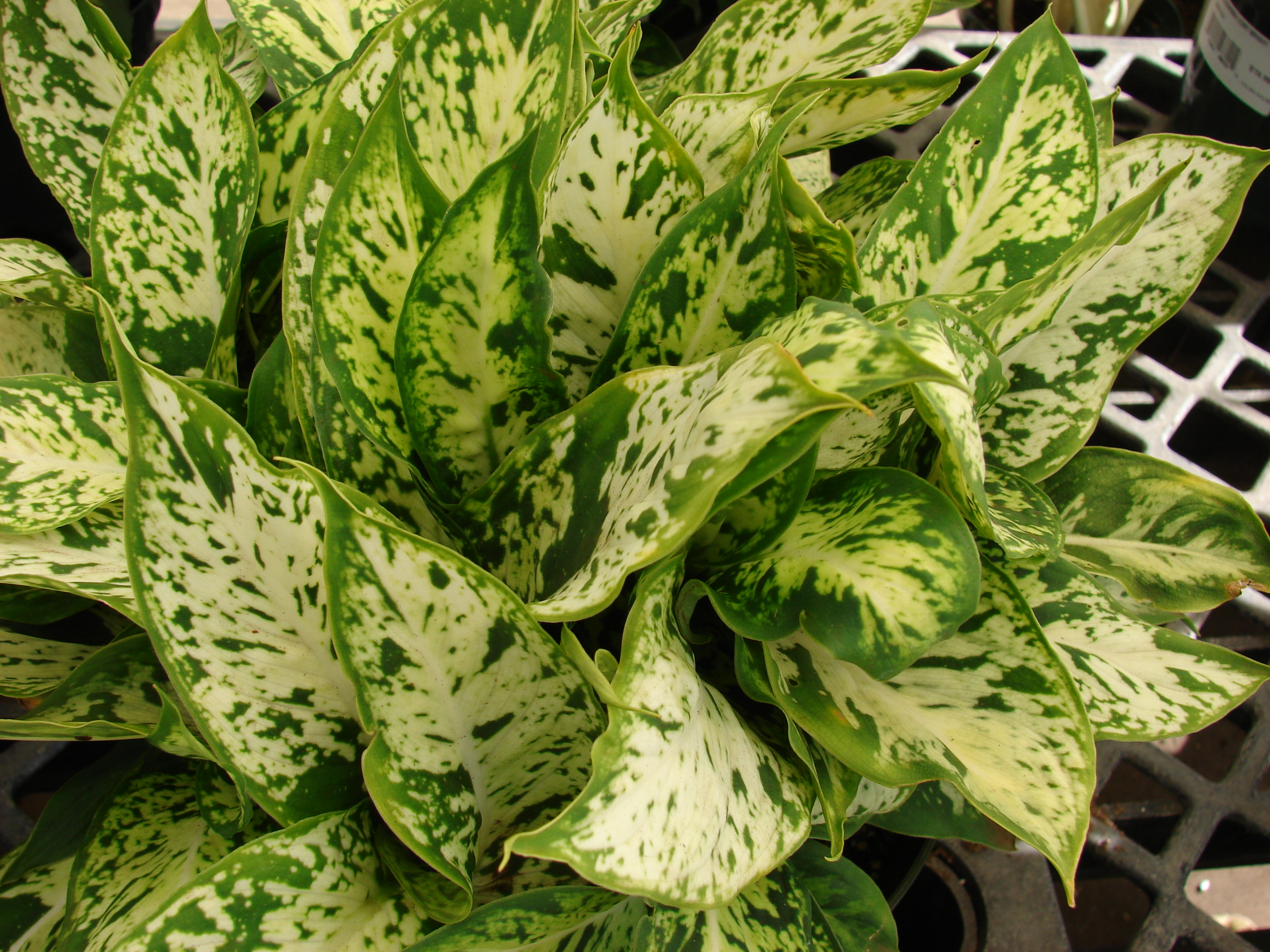 Dieffenbachia maculata (Sparkles leaves). Location: Maui, Walmart Kahului